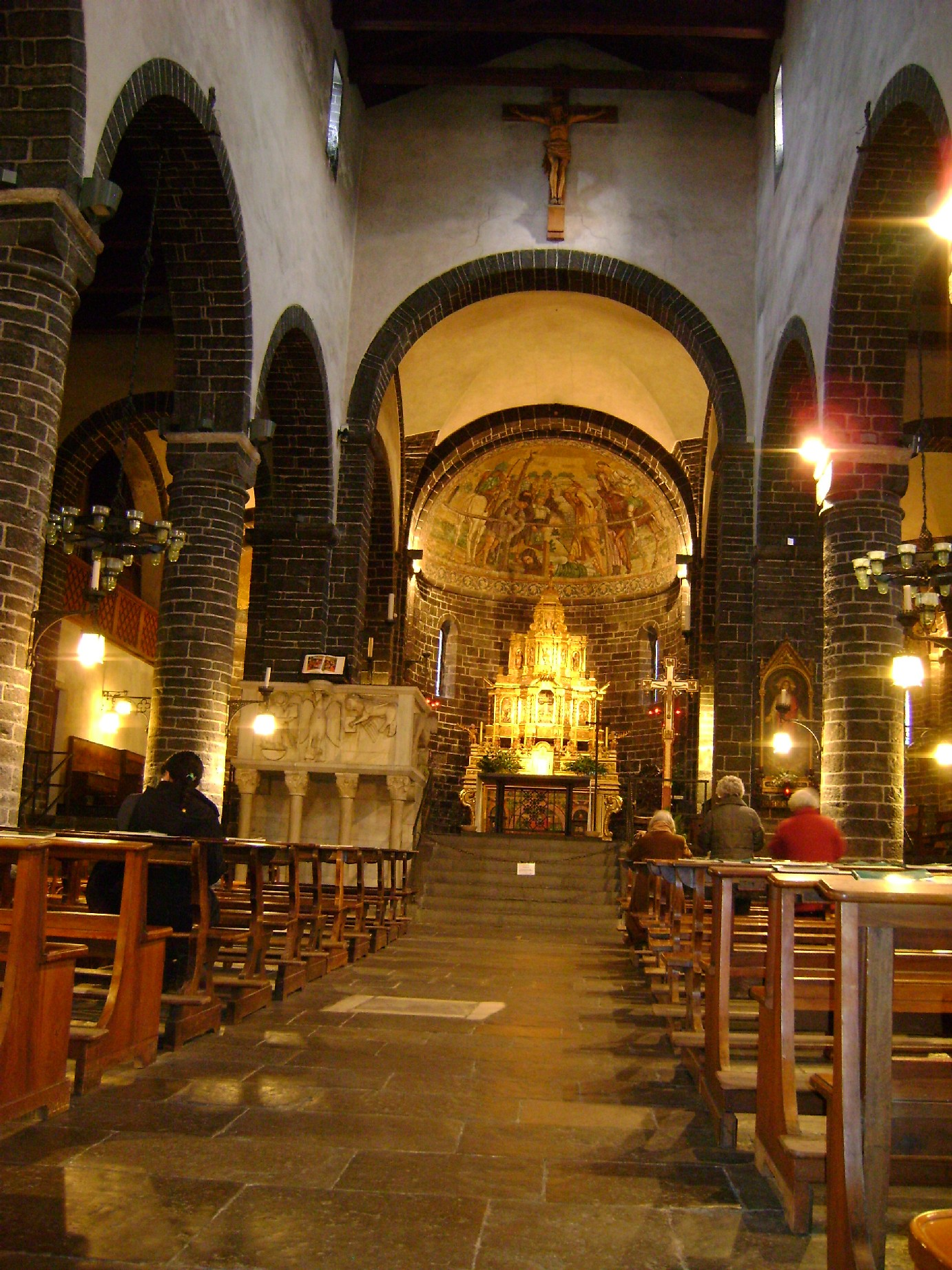 The inside of basilica of St. James in Bellagio (province of Como)